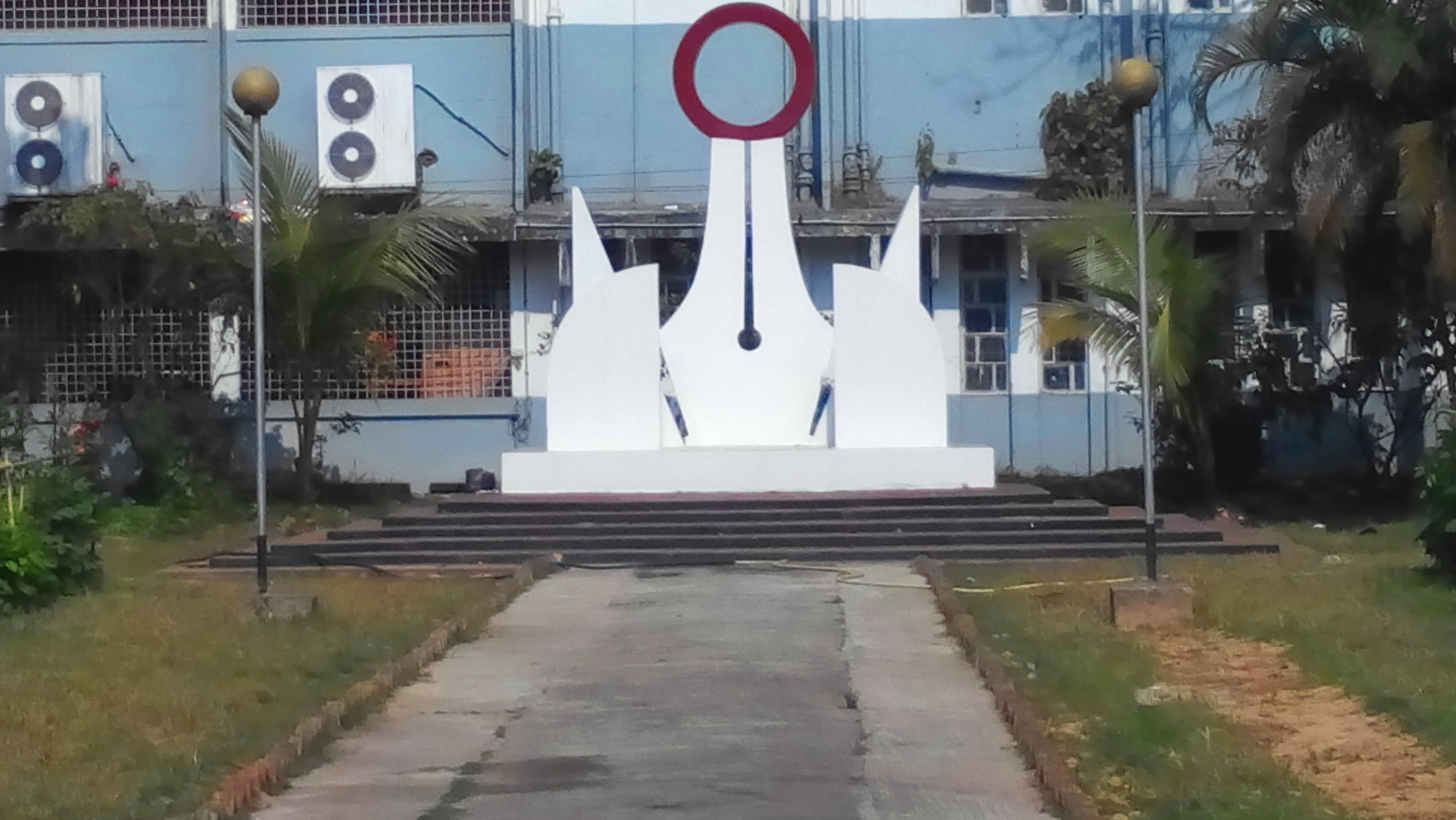 Language Movement Monument in Sylhet M.A.G Osmani Medical College. The monument represents the sharp head of a pen that is an integral part of language.